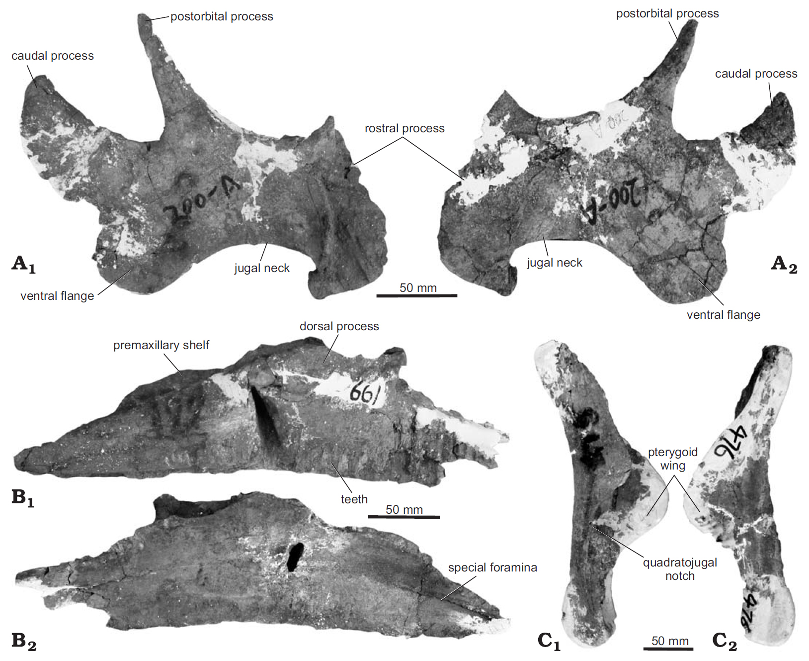 The hadrosaurid dinosaur Sahaliyania elunchunorum gen. et sp. nov. from the Upper Cretaceous Yuliangze Formation at the Wulaga quarry, China. A. GMH W200−A, left jugal in medial (A1) and lateral (A2) views. B. GMH W199, left maxilla in lateral (B1) and medial (B2) views. C. GMH W476, right quadrate in lateral (C1) and medial (C2) views.